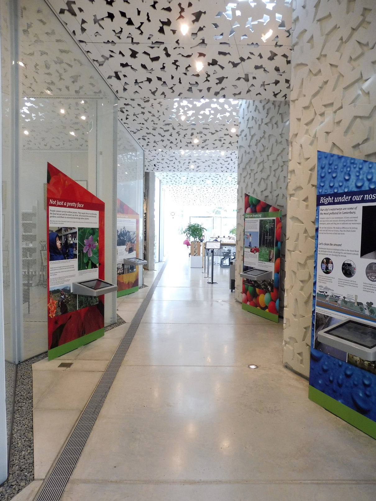 Interior of Visitor Centre at Christchurch Botanic Gardens in Christchurch, New Zealand in 2016.